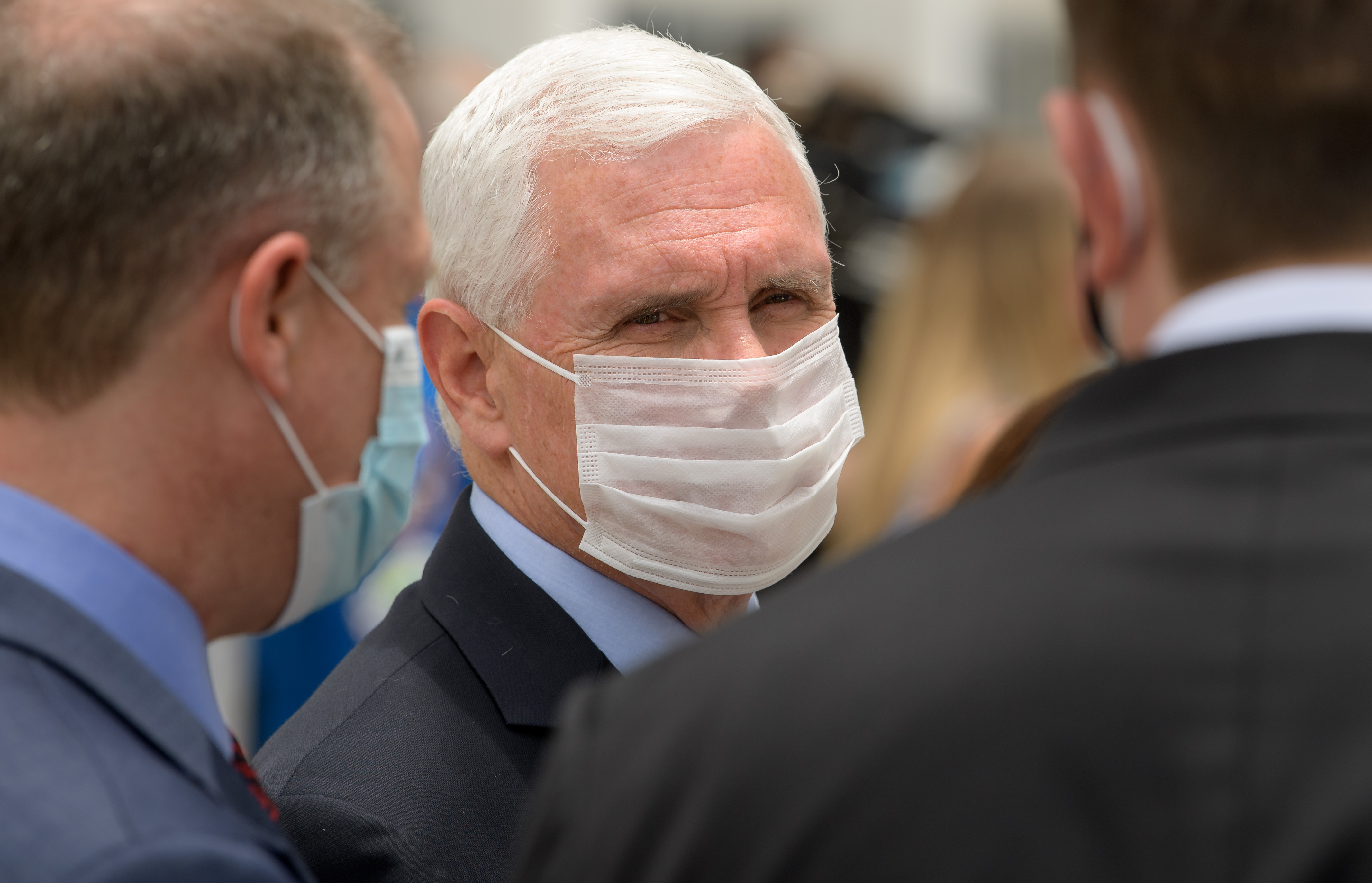 Vice President Mike Pence talks with NASA Administrator Jim Bridenstine, left, and Elon Musk, SpaceX Chief Engineer as they wait to see NASA astronauts Douglas Hurley and Robert Behnken depart the Neil A. Armstrong Operations and Checkout Building for Launch Complex 39A to board the SpaceX Crew Dragon spacecraft for the Demo-2 mission launch, Wednesday, May 27, 2020, at NASA’s Kennedy Space Center in Florida. NASA’s SpaceX Demo-2 mission is the first launch with astronauts of the SpaceX Crew Dragon spacecraft and Falcon 9 rocket to the International Space Station as part of the agency’s Commercial Crew Program. The test flight serves as an end-to-end demonstration of SpaceX’s crew transportation system. Today’s launch of Behnken and Hurley was scrubbed due to weather and is now scheduled for 3:22 p.m. EDT on Saturday, May 30, from Launch Complex 39A at the Kennedy Space Center. A new era of human spaceflight is set to begin as American astronauts once again launch on an American rocket from American soil to low-Earth orbit for the first time since the conclusion of the Space Shuttle Program in 2011. Photo Credit: (NASA/Bill Ingalls)